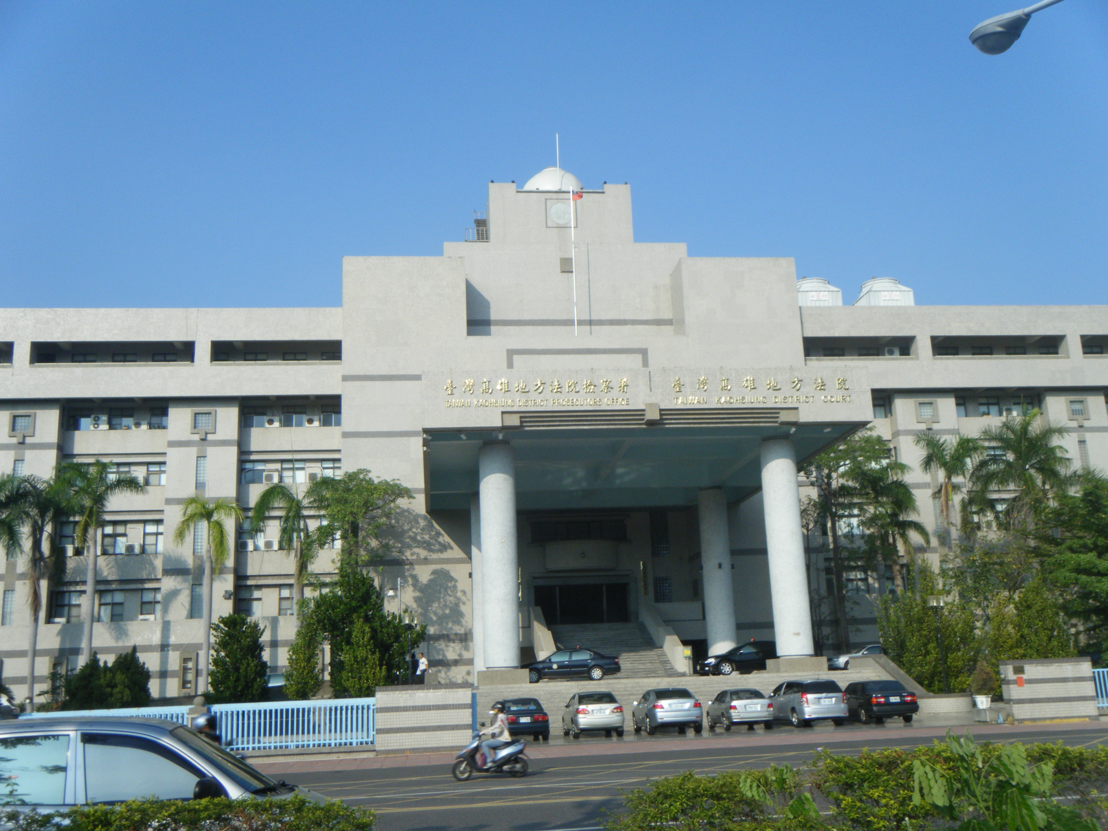 Taiwan Kaohsiung District Court building